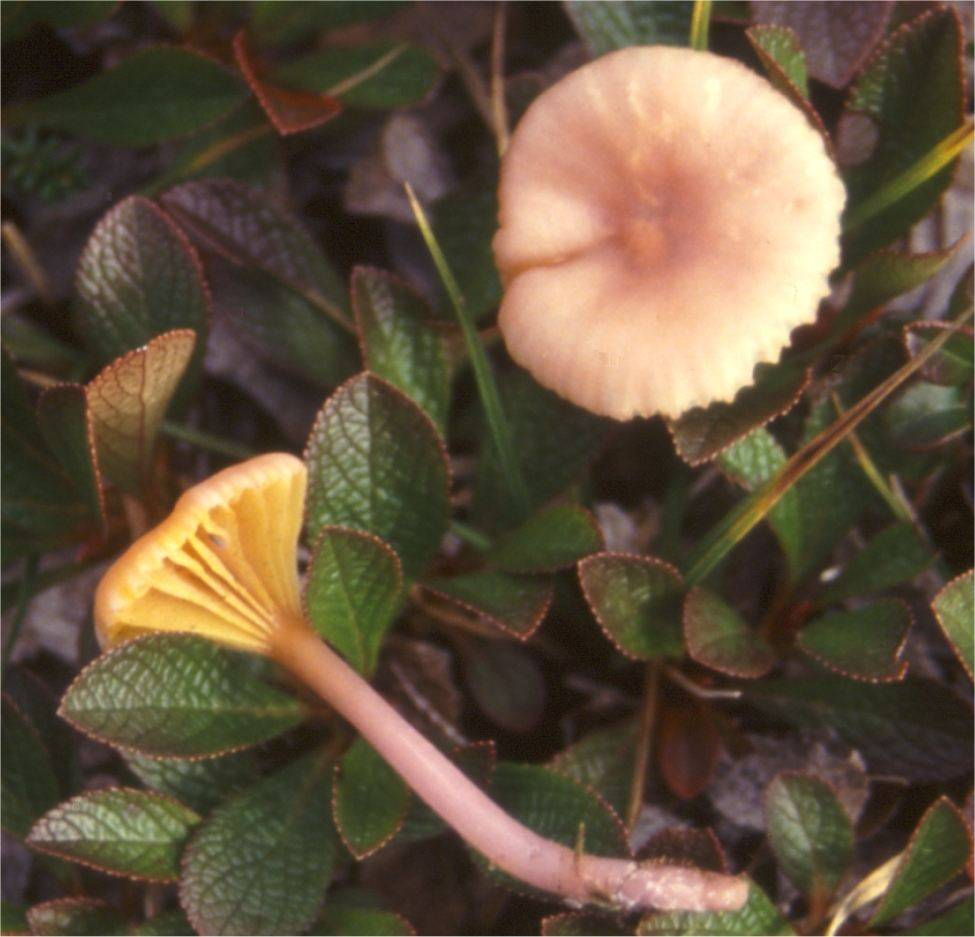 Hygrocybe lilacina Location: Vassijaure, Lapland, Sweden For more information about this, see the observation page at Mushroom Observer.